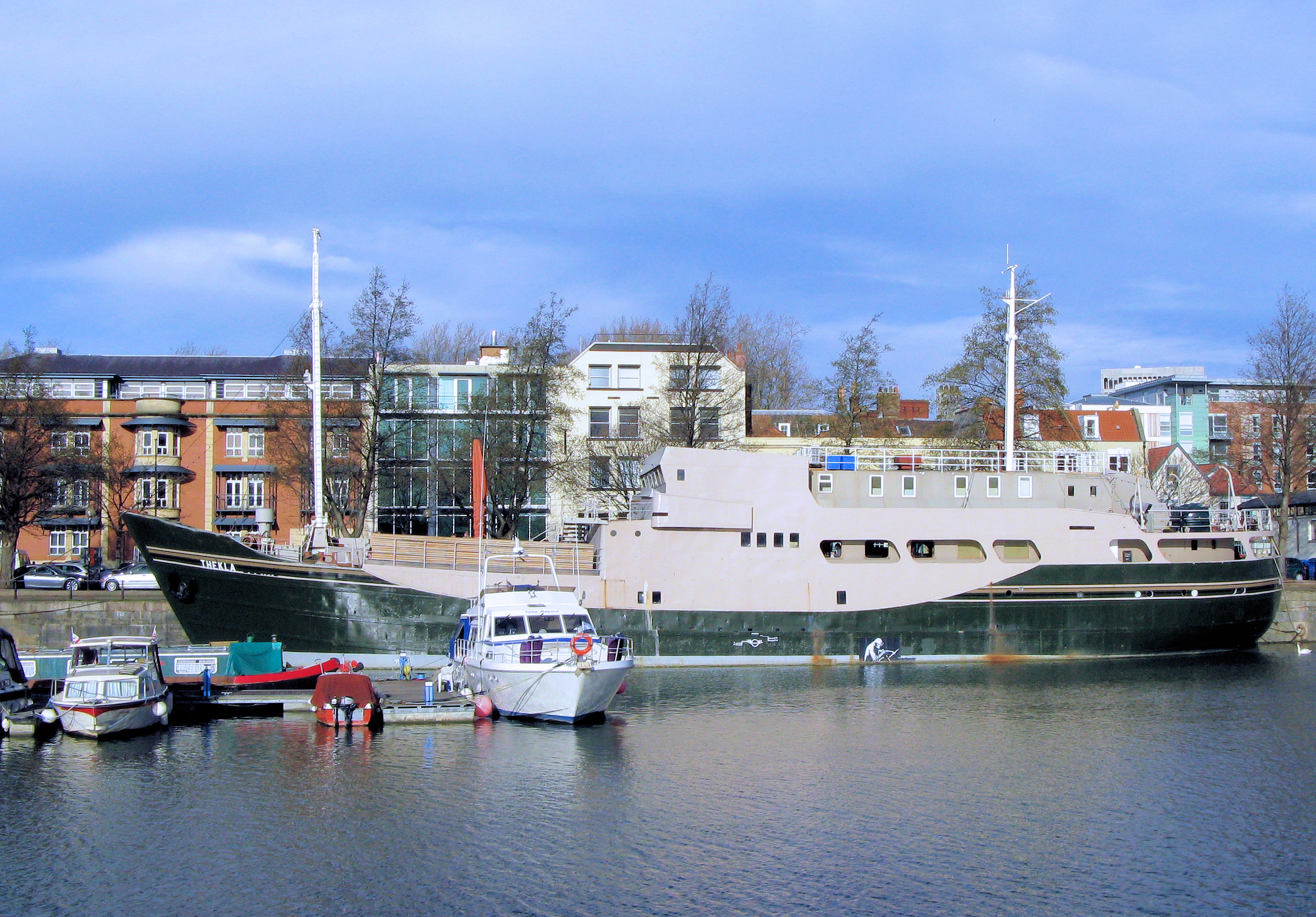 Thekla in January 2008, moored at The Grove, East Mud Dock, Bristol, England. The previous paint job was all-black, the ship was repainted dark green and cream (in 2006?). The Banksy graffiti of a Skeleton Rower was not destroyed in the repaint.